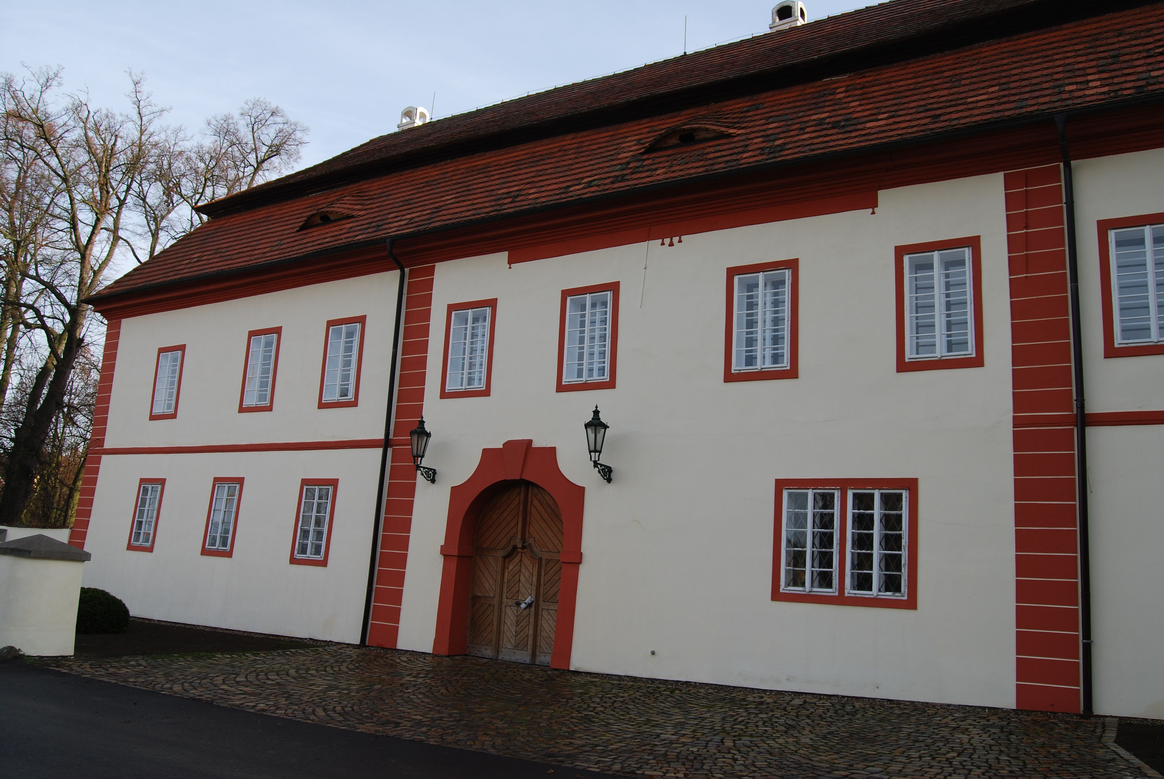 Drahenice village in Příbram District, Czech Republic. Drahenice château